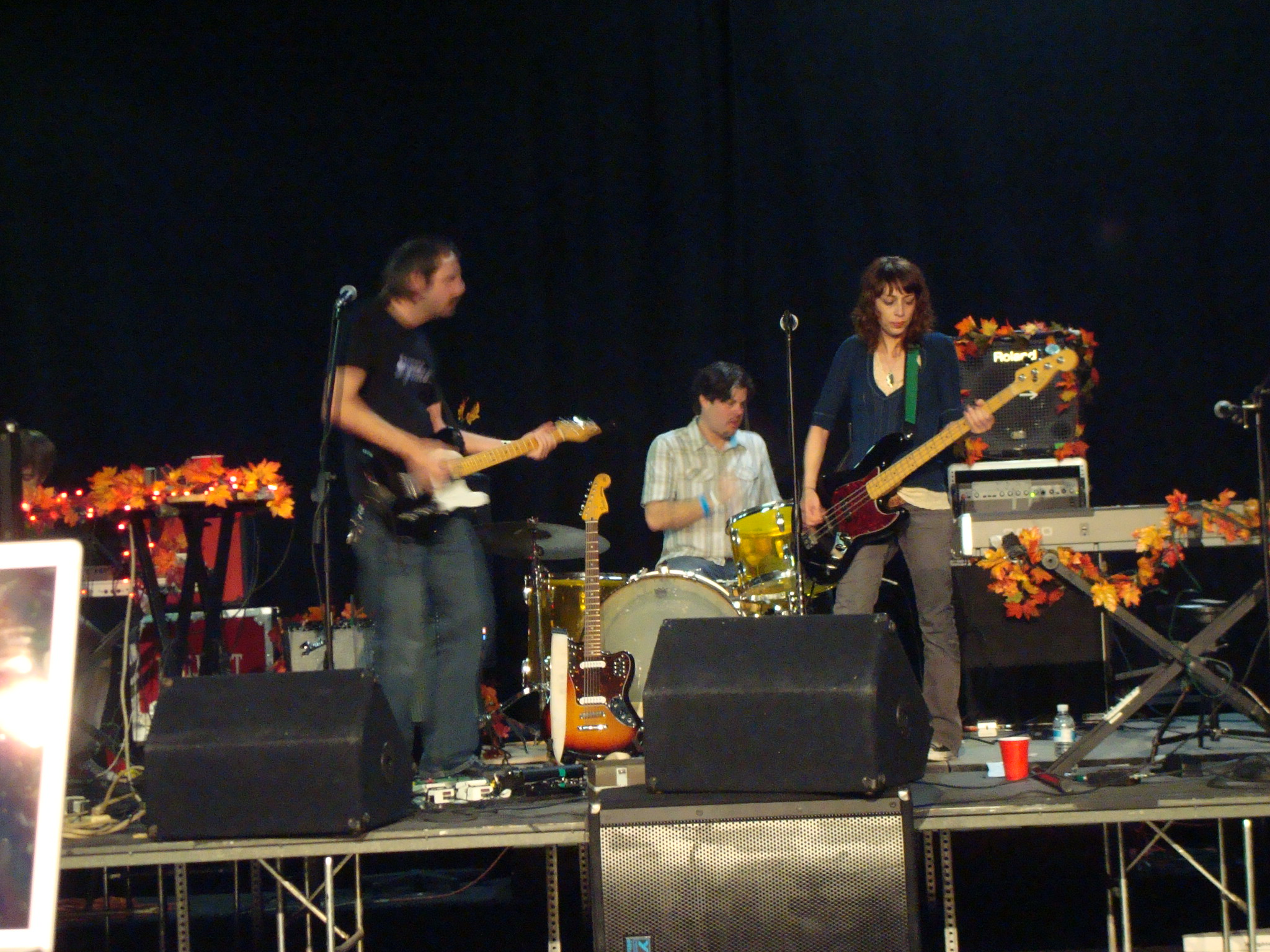 Earlimart at South by Southwest 2008 - Free show at Salvage Vanguard Theater Austin Tx.